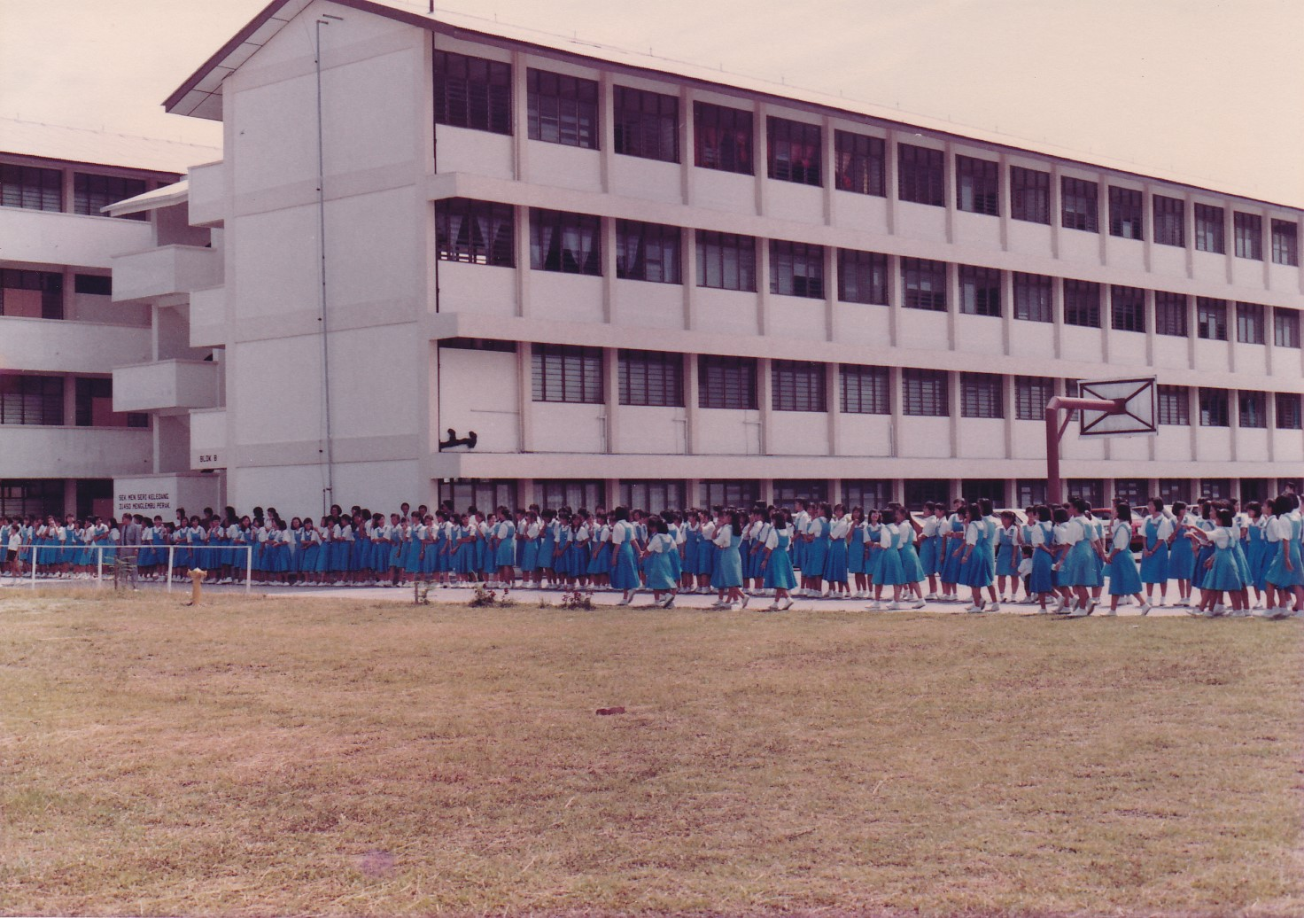 dibina pada tahun 1989